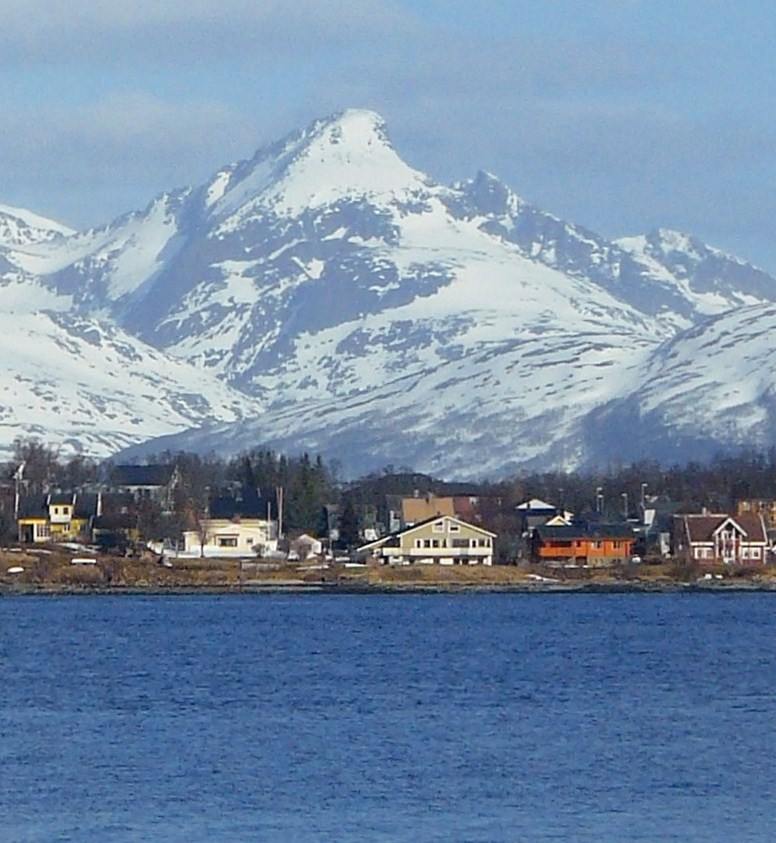 Store Blåmann (1,044 m) behind and some residential buildings of Tromsø below seen from the E8 road in 2009 May.